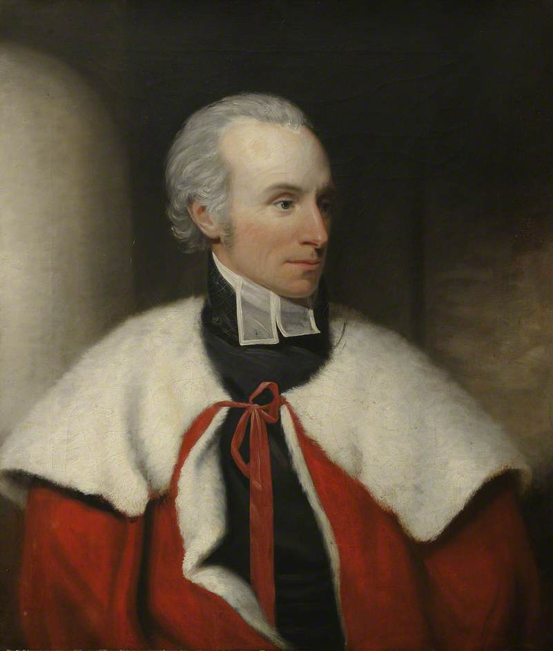 Philip Douglas (1758-1822), Master of Corpus Christi, Cambridge